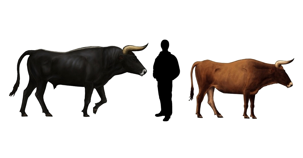 Life restoration of an aurochs bull and cow based on skeletons and primitive cattle anatomy.